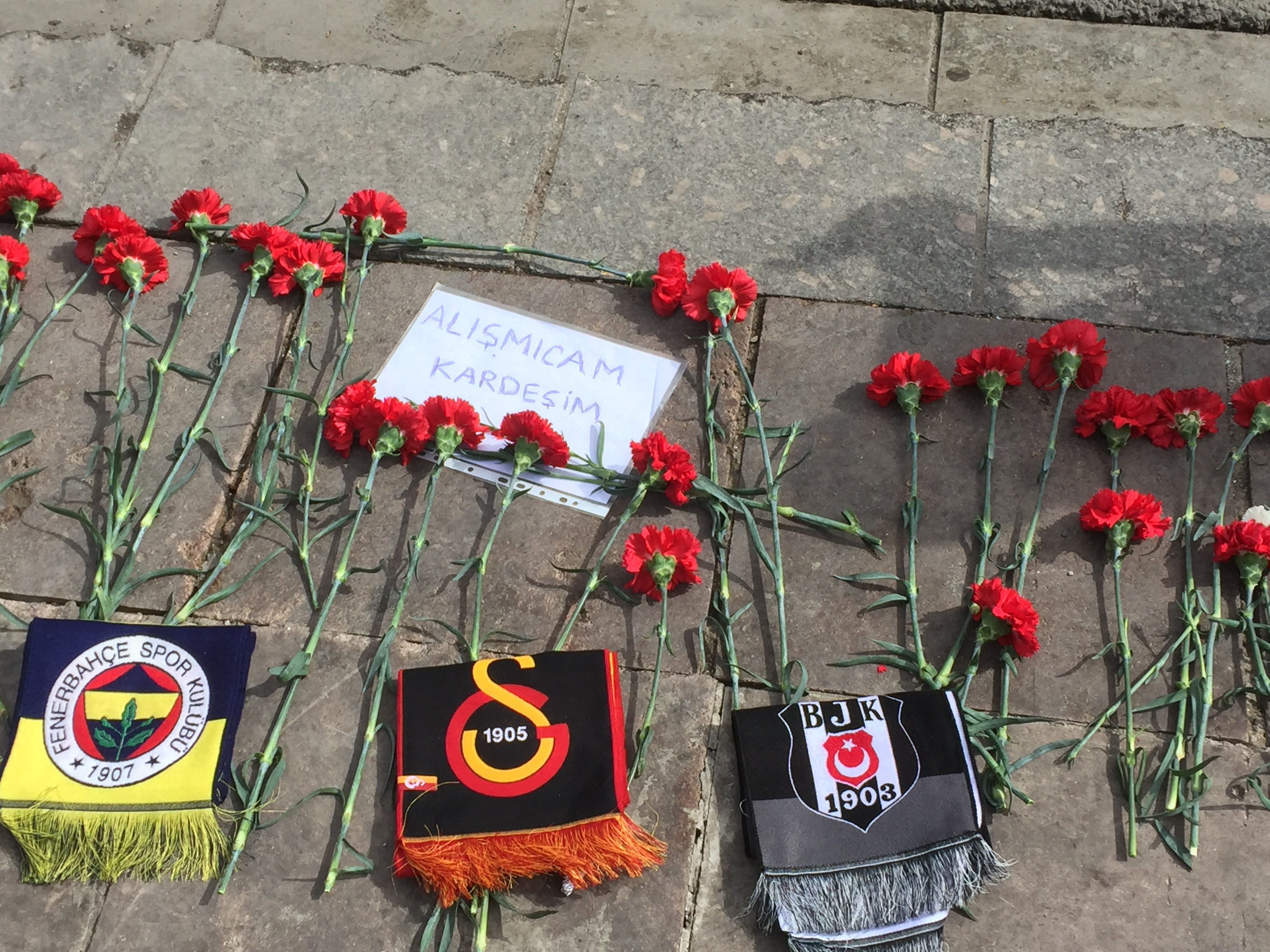 Title and description of original VOA publication: "Ankara Yaralarını Sarıyor - Yayın tarihi 15.03.2016 - Ankara Kızılay'da saldırı sonrası trafiğe kapatılan Atatürk Bulvarı trafiğe açıldı."